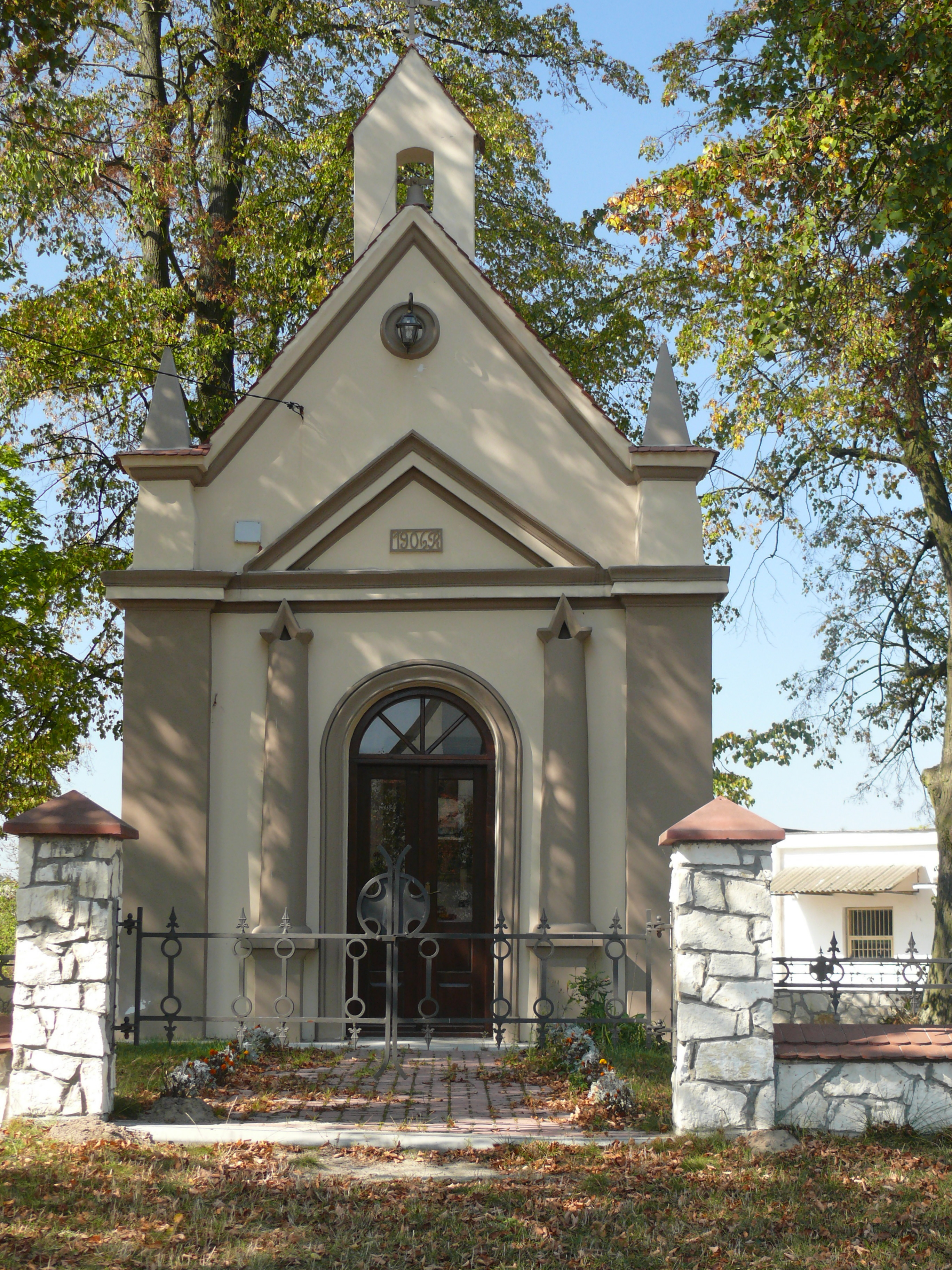 chapel near Nasutów